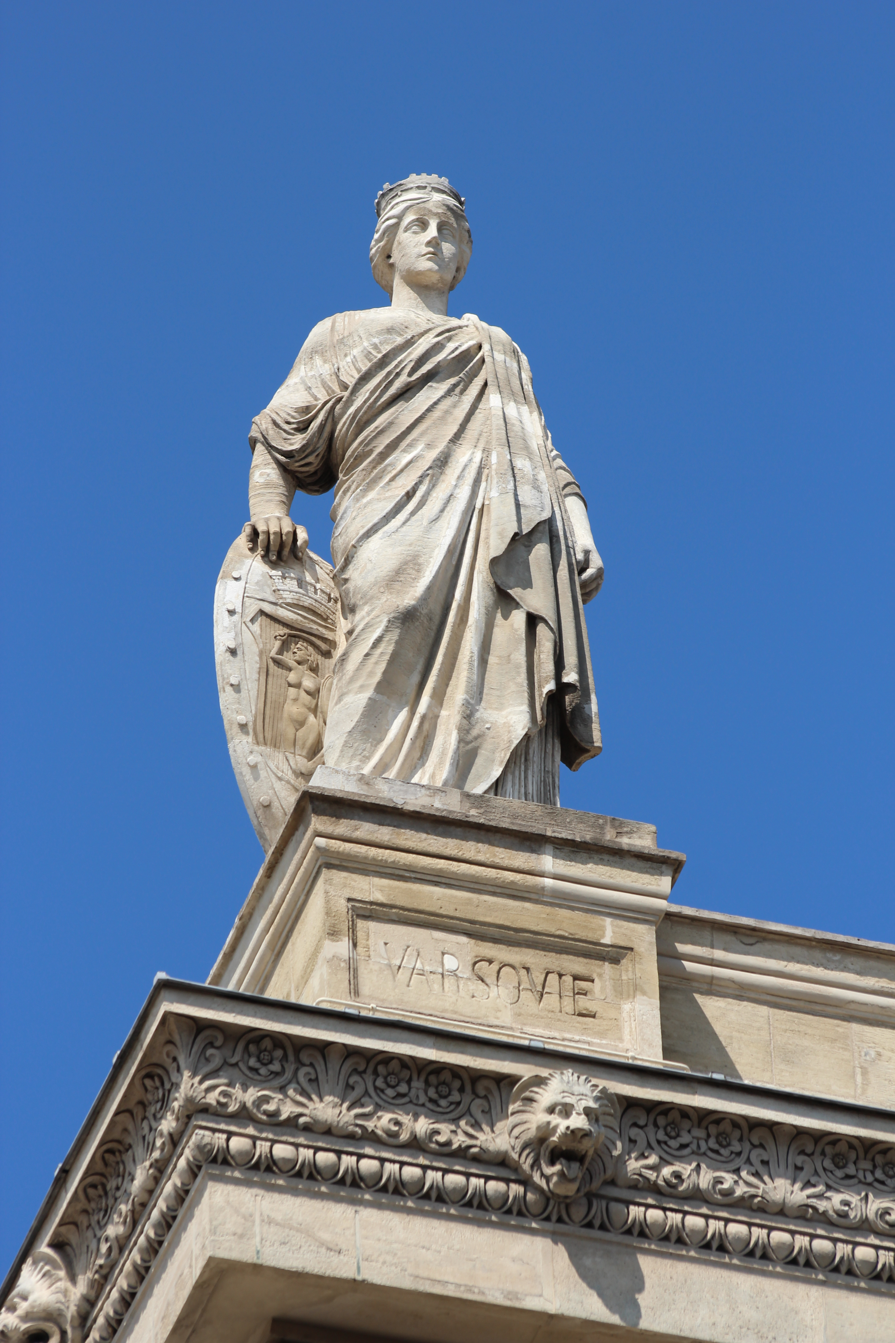 View of the facade of Gare du Nord in Paris, France. .